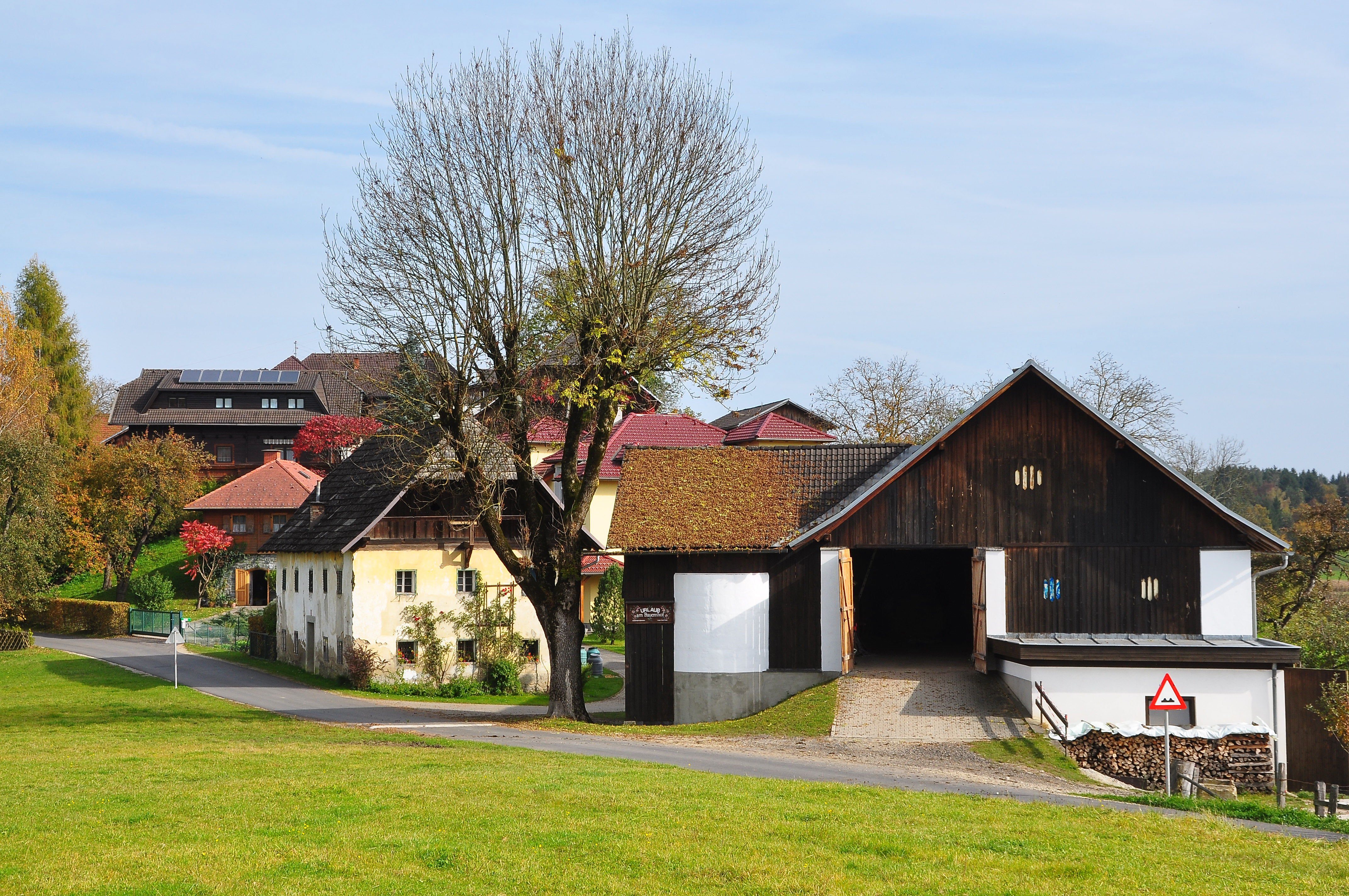 Hamlet with farmhouses at Goritschitzen, situated in the community Moosburg, district Klagenfurt-Land, Carinthia, Austria